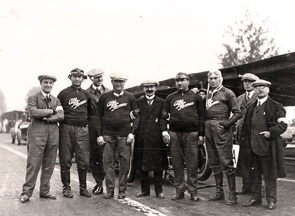 Alfa racing team at Monza for the Italian GP on 19 October 1924. From left: Giorgio Rimini, Ferdinando Minoia (fourth), unknown, Antonio Ascari (WINNER) , Nicola Romeo (team owner), Giuseppe Campari (third), Louis Wagner (second), unknown, Giuseppe Merosi.